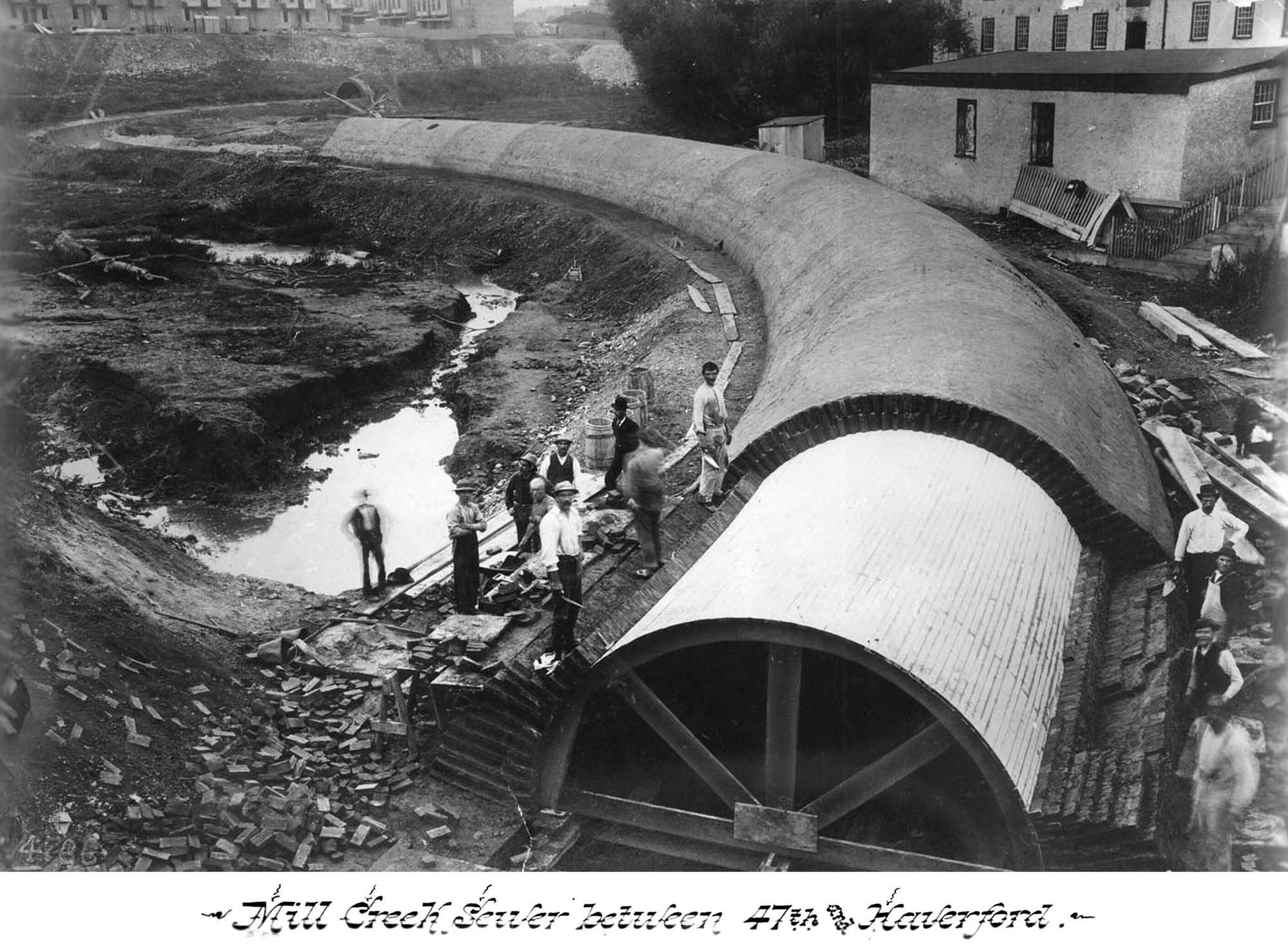 Mill Creek Sewer, ca. 1883, at 47th Street and Haverford Avenue in West Philadelphia. Depicts the laying of a section of the 21-foot sewer pipe that was used to encapsulate and bury Mill Creek. The project ran from 1869 to 1894.